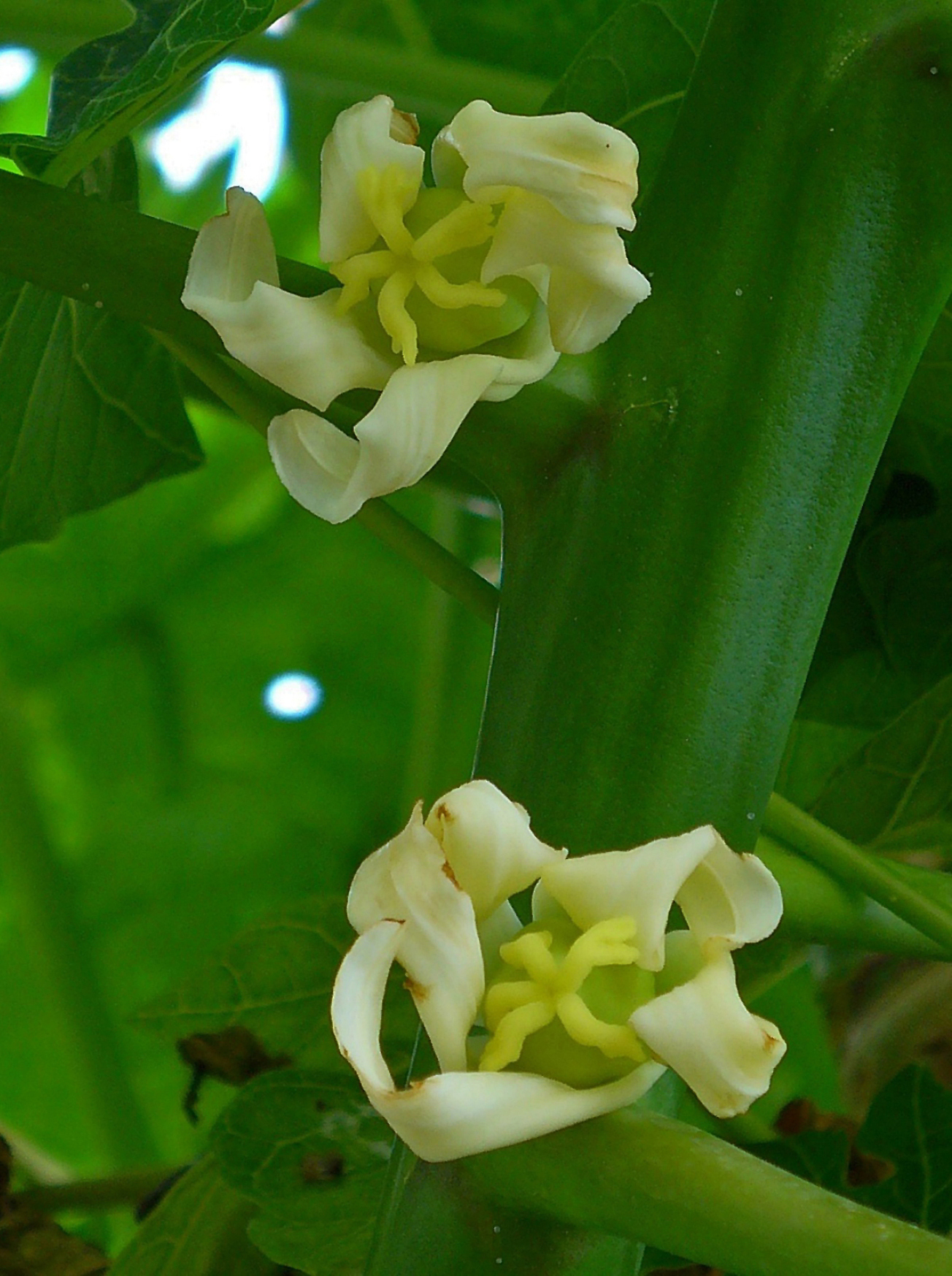 Carica papaya, Caricaceae, Papaya, female flowers; Botanical Garden KIT, Karlsruhe, Germany. The leaves are used in homeopathy as remedy: Carica papaya (Cari-p.)